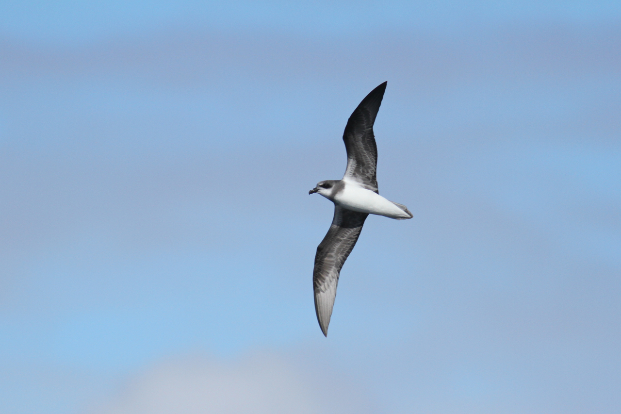 Soft-plumaged Petrel off Albany, Western Australia on the 29th July 2012